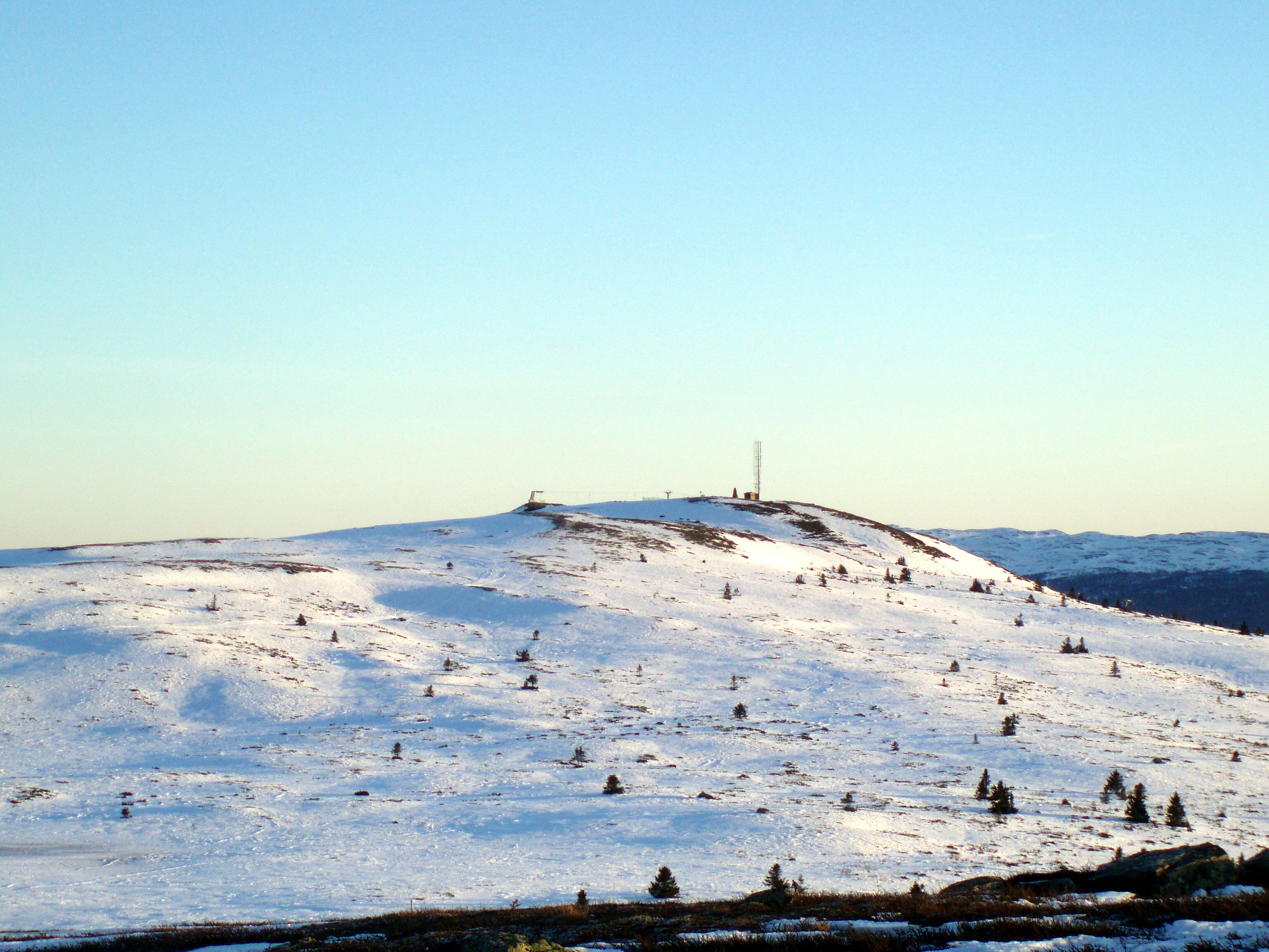 The mountain Storfjell, in the municipality of Gol, Norway.